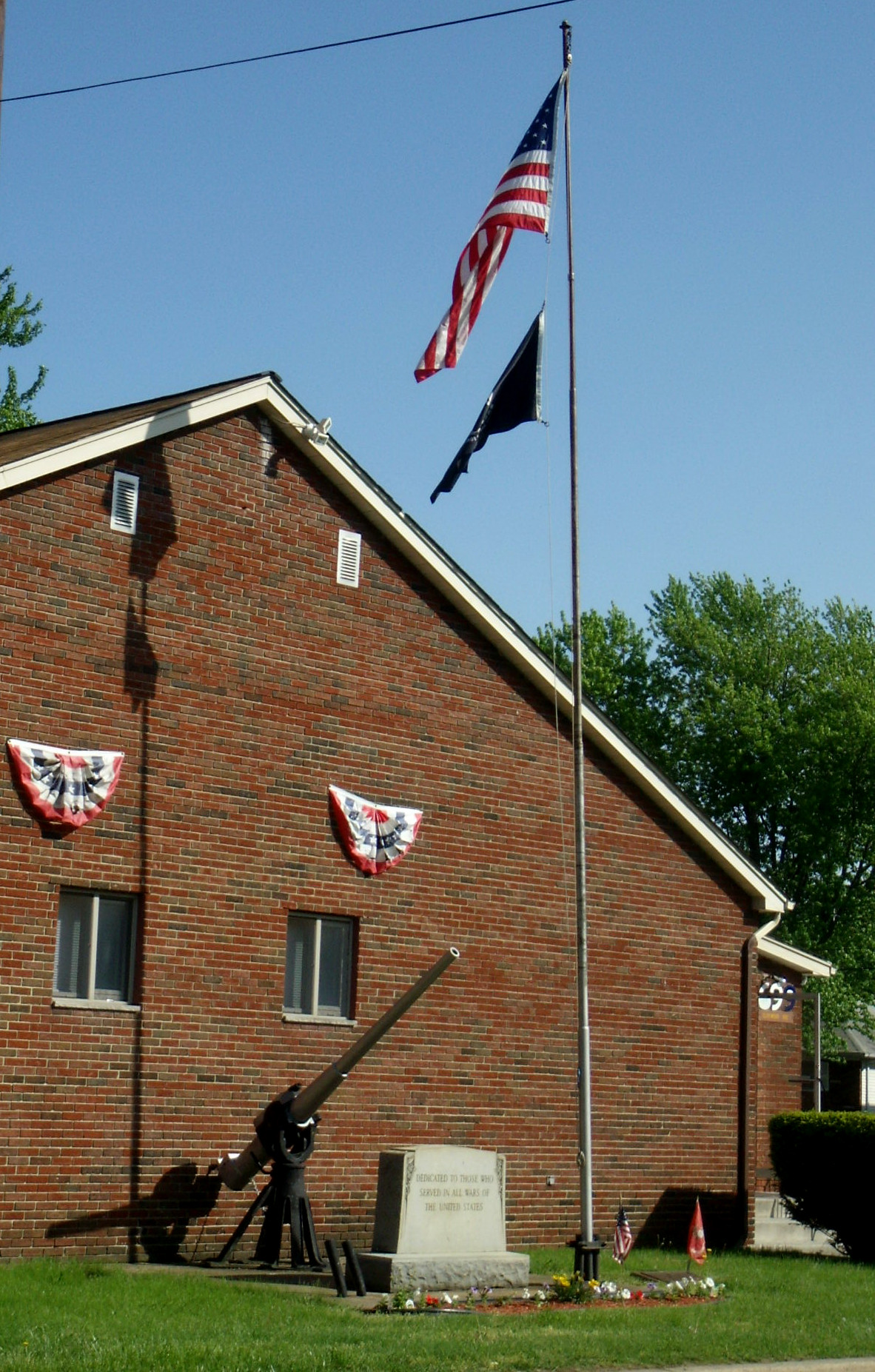 VFW in Cliffwood, NJ taken by Pat Noble.